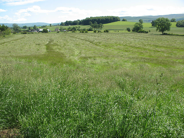 Hayfield ripe for mowing This field of tall grass was probably about to be mown, as several others in the vicinity had been by late June.